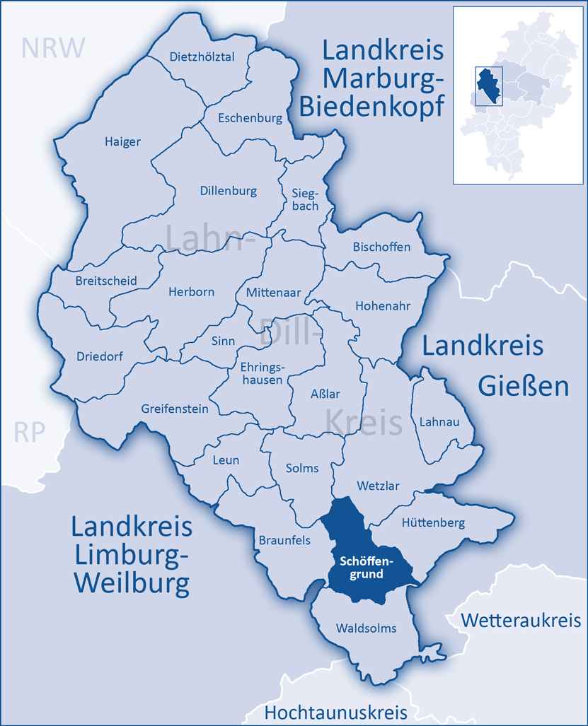 The map shows a district in the area of Lahn-Dill-Kreis